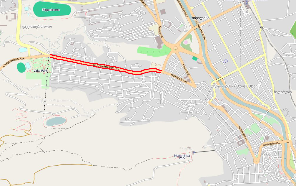 Map of Chavchavadze Avenue, Tbilisi This map may be incomplete, and may contain errors. Don't rely solely on it for navigation.